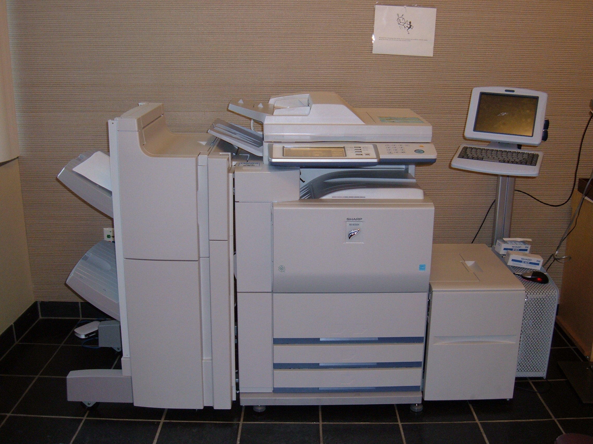 Sharp MX-M700N photocopier/printer